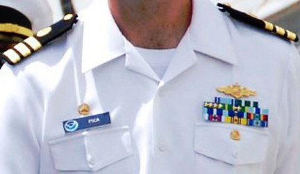 Image of a National Oceanic and Atmospheric Administration Commissioned Corps (NOAA Corps) Commander wearing insignia, badges, and awards specific to the NOAA Corps